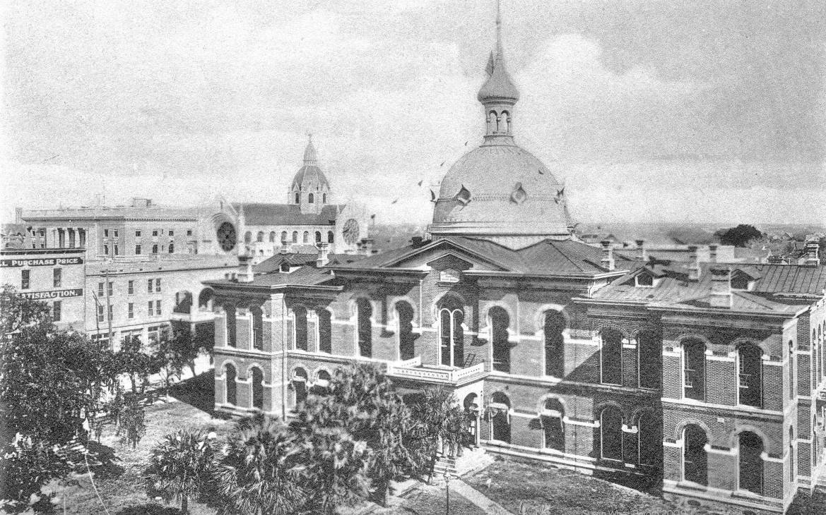 The old Hillsborough County Courthouse in Tampa Florida, since demolished.